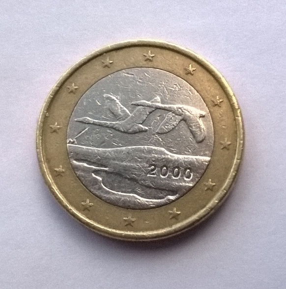 The national side of Finnish one euro coin representing flying swans above lakes, designed by sculptor Pertti Mäkinen.